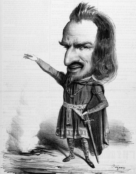 French opera singer Nicolas-Prosper Levasseur (1791-1871) as Bertram in Meyerbeer's "Robert le Diable". Caricature by Benjamin Roubaud (1811-1847) published in "Le Charivari".